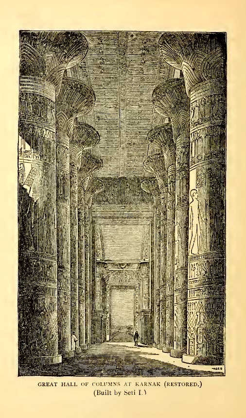 History of Seti I. monuments at Karnak